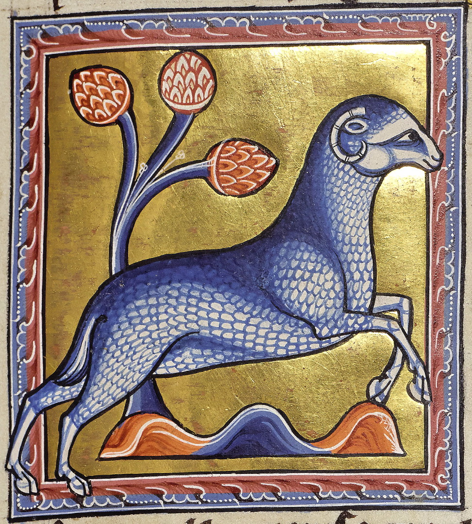 Aberdeen University Library, Univ. Lib. MS 24, The Aberdeen Bestiary, Folio 21r : Ram, England, ca. 1200.